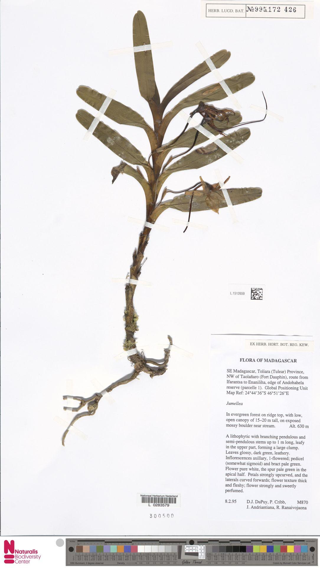 Jumellea alionae P.J.Cribb (type of) - Jumellea alionae P.J.Cribb (species)